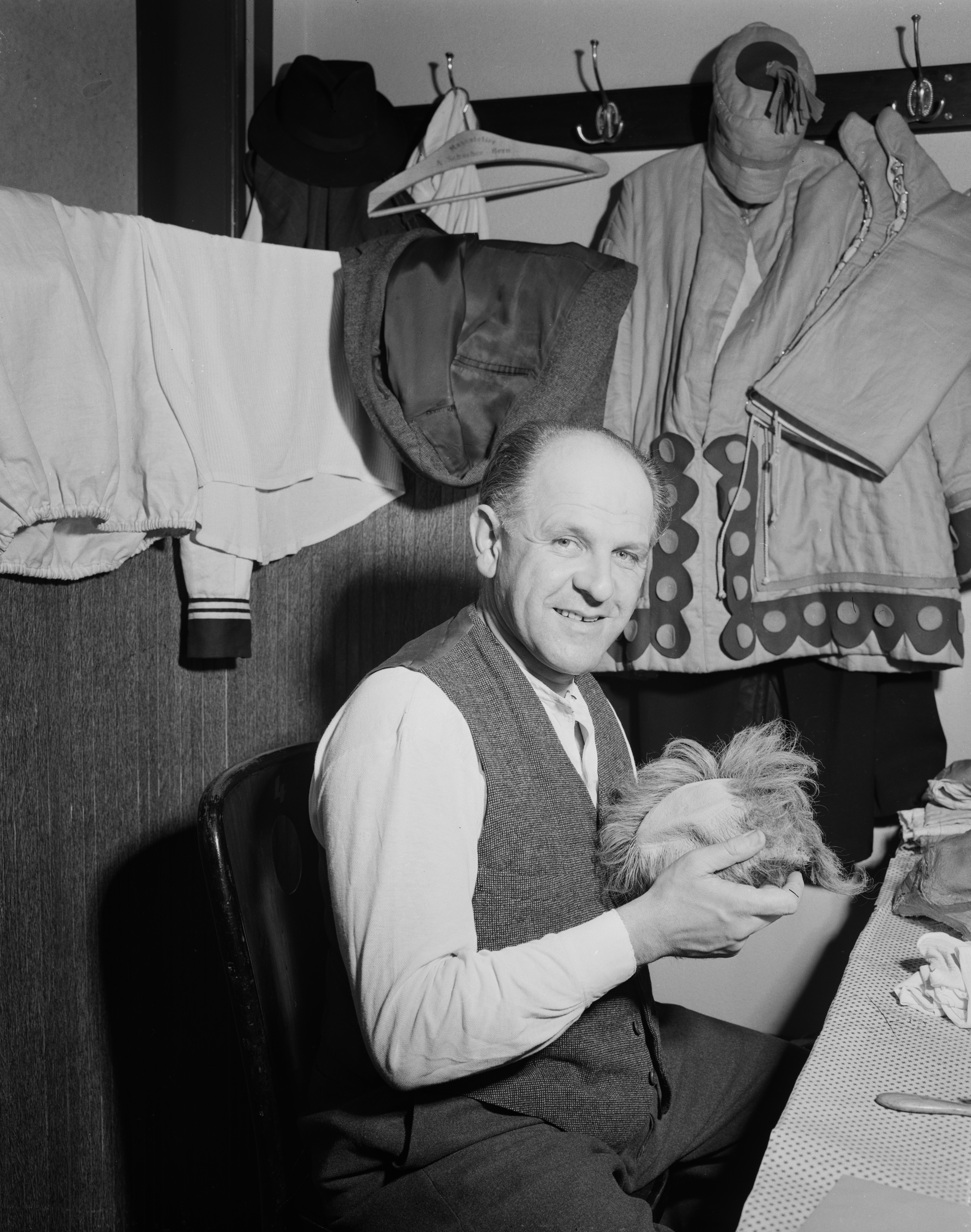 Alfred Rasser, Swiss comedian and member of parliament